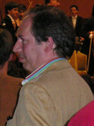 Composer Hans Zimmer